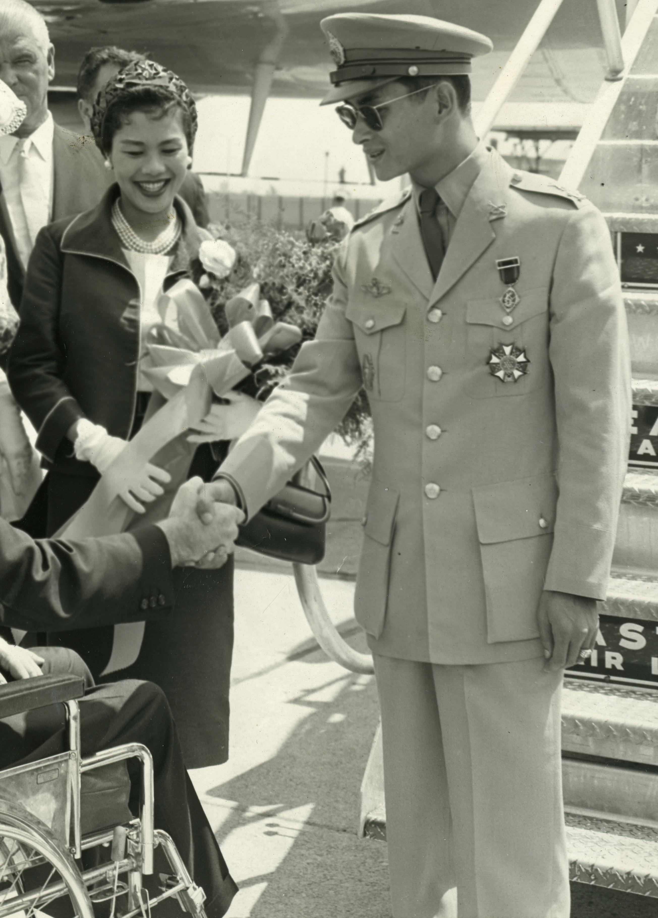 Title: Mayor John F. Collins and Mary Collins with Queen Sirikit and King Bhumibol Adulyadej of Thailand Creator: City of Boston Date: 1960 Source: Mayor John F. Collins records, Collection #0244.001 File name: 244001_0204 Rights: Copyright City of Boston Citation: Mayor John F. Collins records, Collection #0244.001, City of Boston Archives, Boston